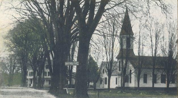 Center Ossipee, NH in 1909; from an old postcard.